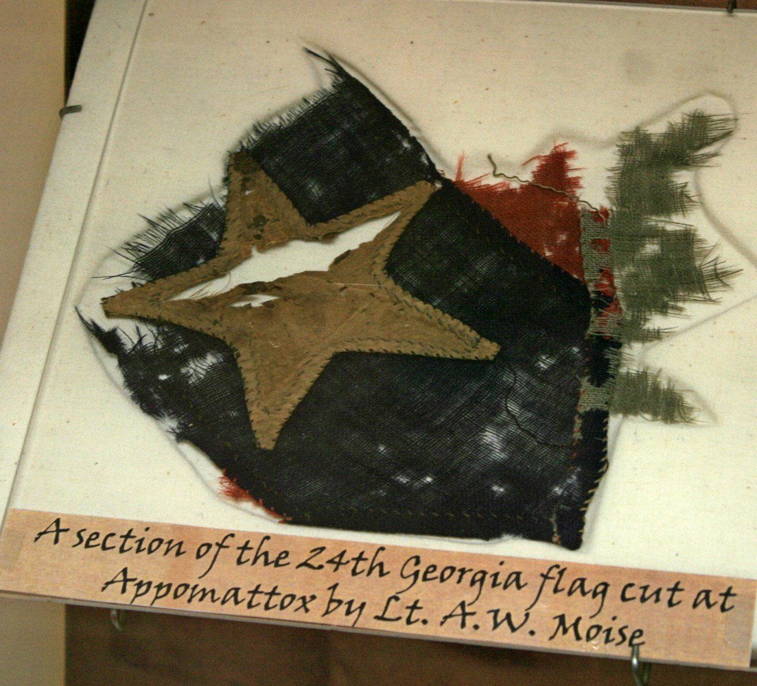 A section of the 24th Georgia flag cut at Appomattox by lt. A. W. Moise